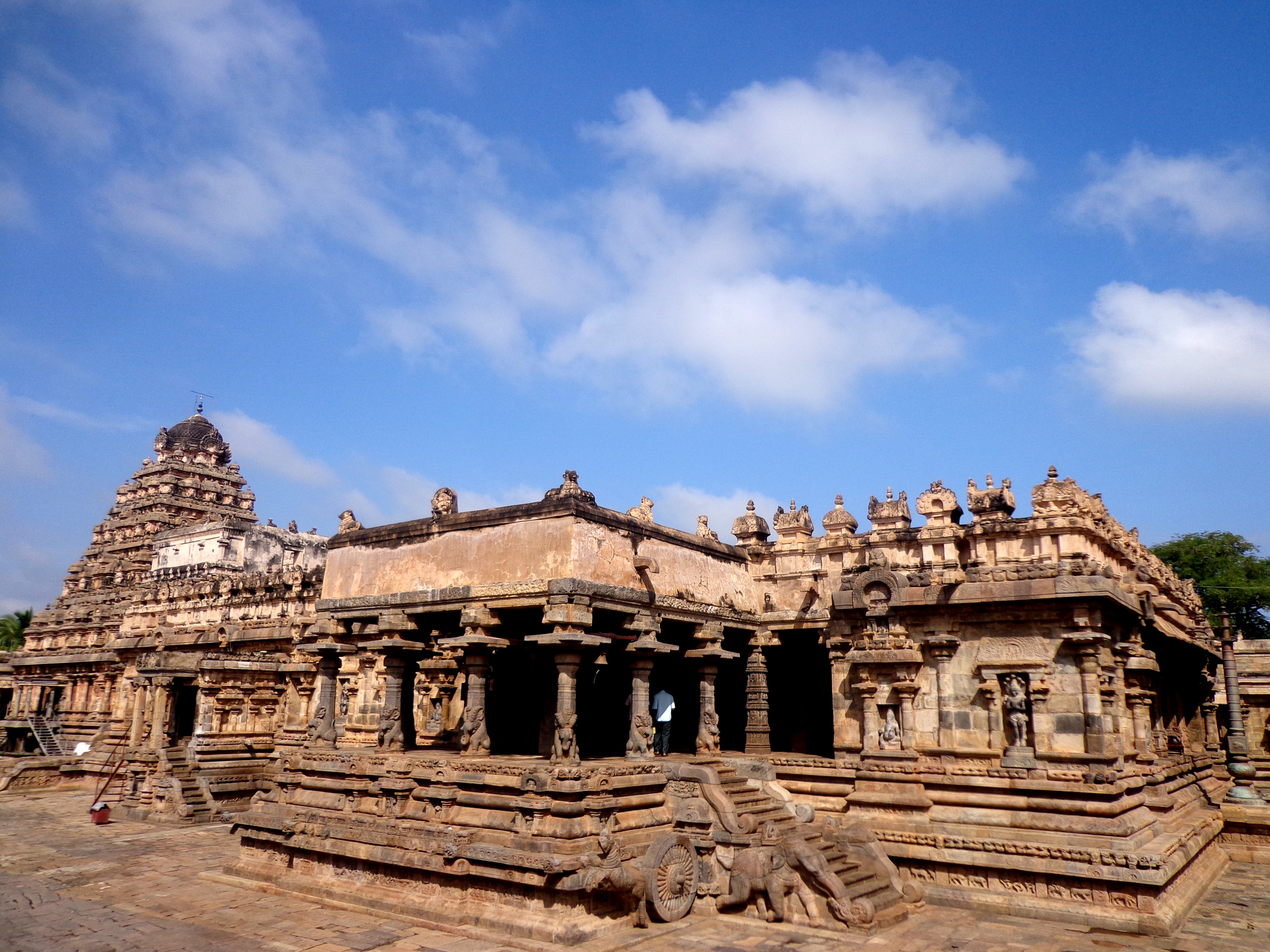 Airavatesvara Temple is the Lord Shiva temple located in Darasuram,near Kumbakonam,Thanjavur.It is a UNESCO world heritage site and it is referred to as "Great Living Chola Temples" along with Brihadeeswara Temple at Thanjavur and Gangaikondacholisvaram Temple at Gangai Konda Cholapuram.